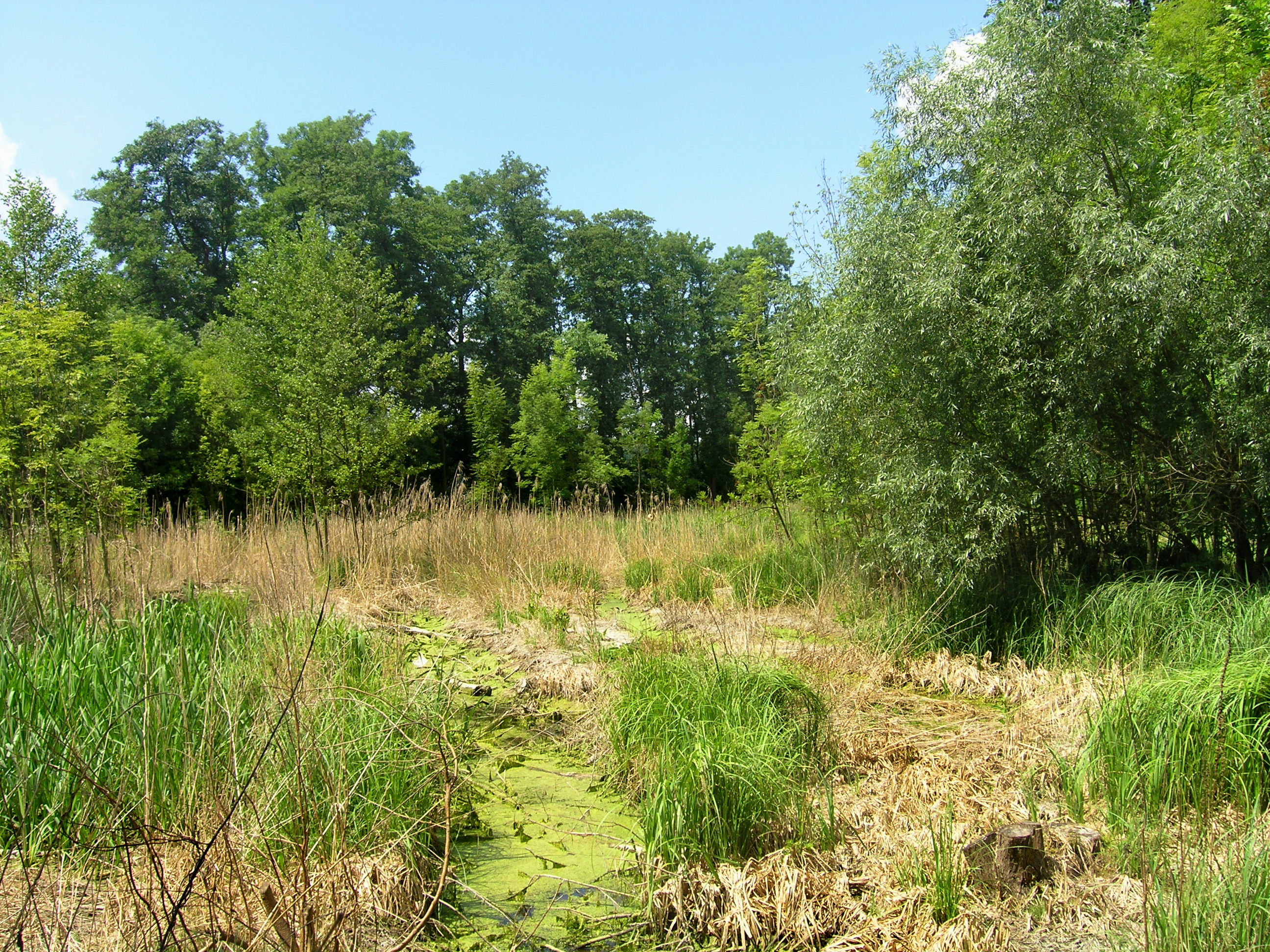 Pístecký les natural reserve, Czech Republic